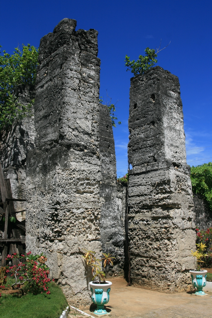 Ruins of Kota at Madridejos, Cebu